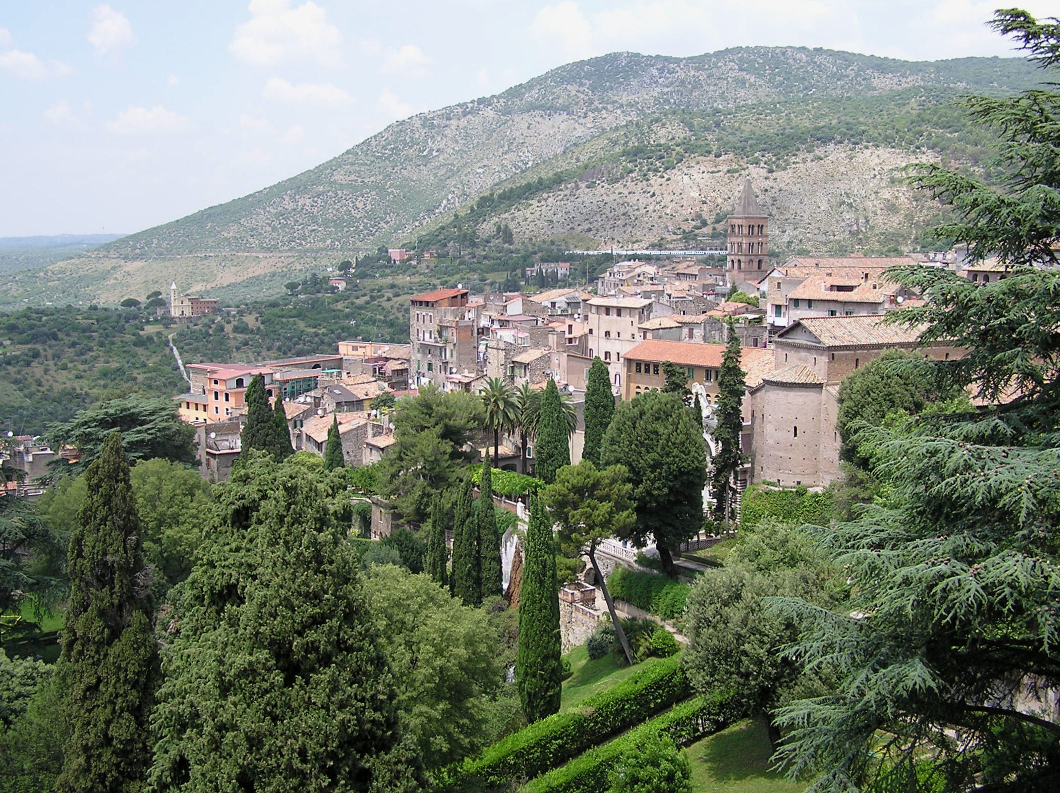 A small part of Tivoli, and its surroundings, seen from the upper terraces of the Villa d'Este. Some of the trees of the Villa's gardens are at lower left.